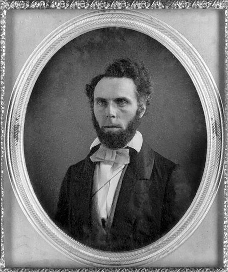 Henry Browne Blackwell (1825–1909) pictured ca. 1845–1860. American abolitionist, husband of women's rights leader Lucy Stone, father of Alice Stone Blackwell, feminist.